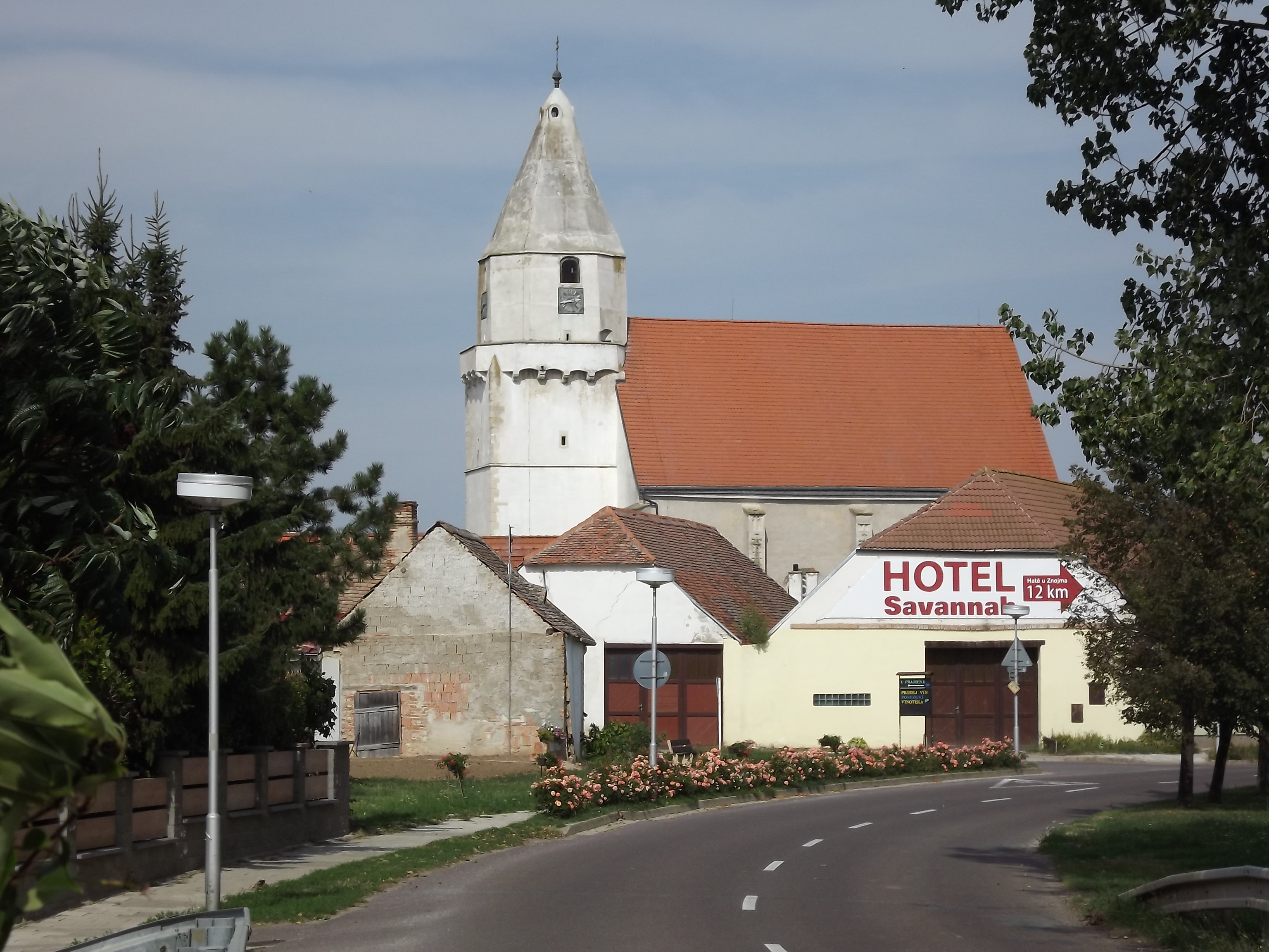 Hnanice in Znojmo District, Czech Republic. Church of Saint Wolfgang.